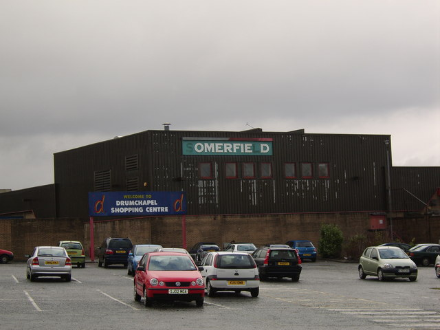 Drumchapel shopping centre The central shopping area of Drumchapel. In dire need of renovation.